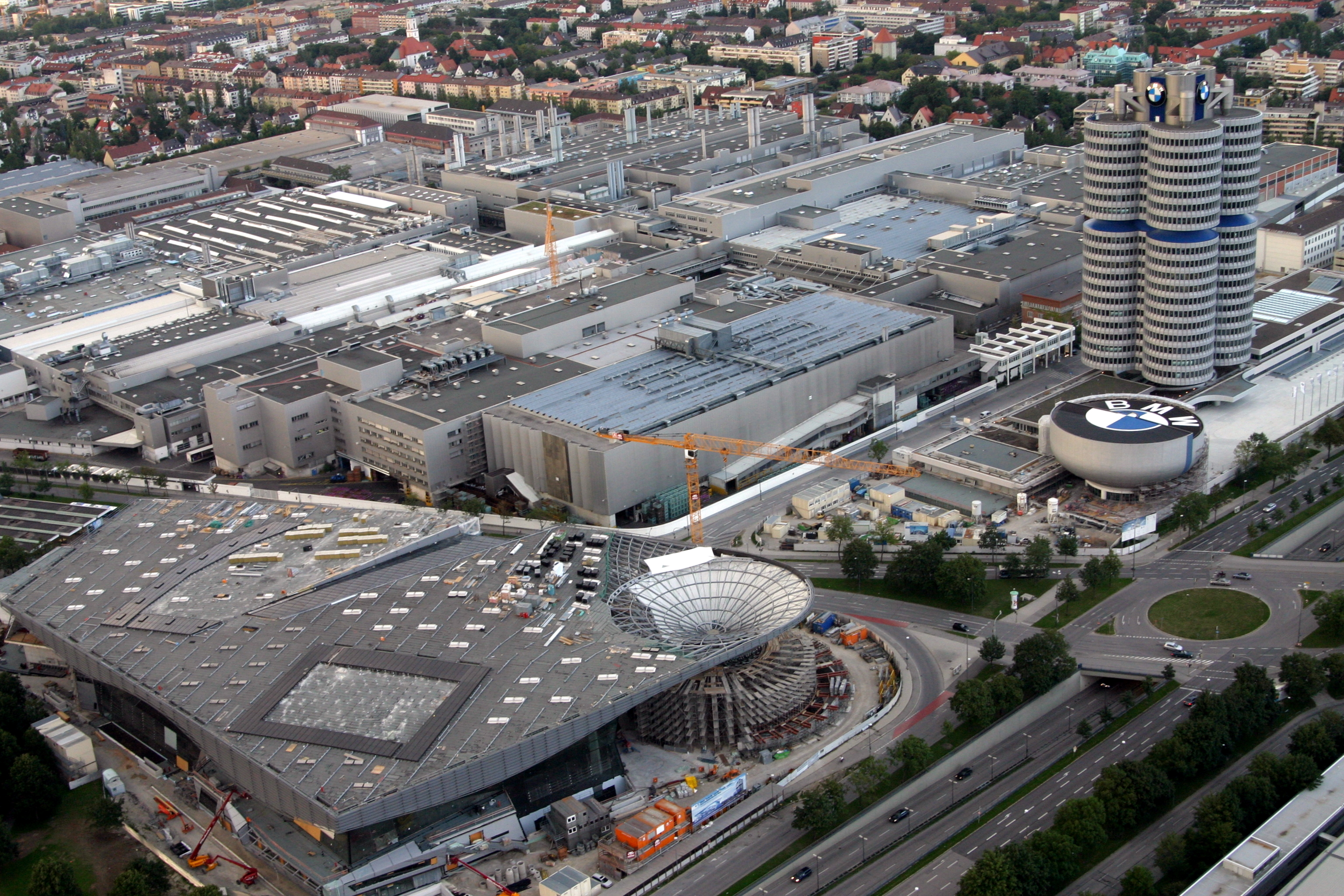 BMW Headquarter, Plant and BMW Welt